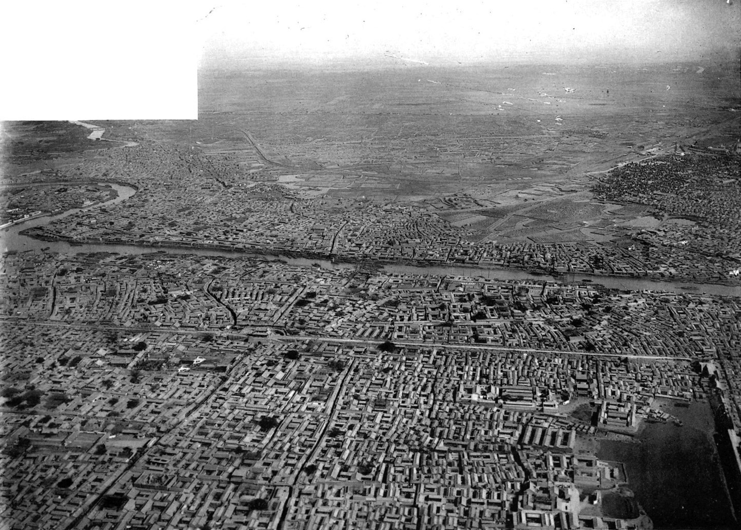 Image from La Chine à terre et en ballon.